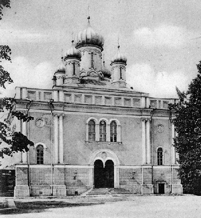 Pre-revolutionary photograph of the Church of the Transfiguration on Aptekarsky Island in St.-Petersburg